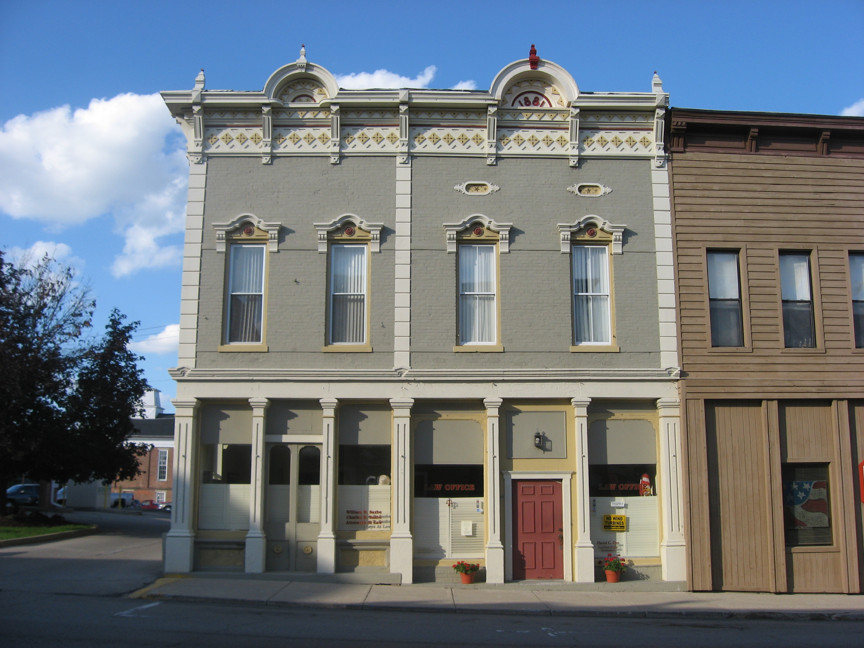 Front of the Magruder Building, located at 16 S. Main Street (State Route 29) in Mechanicsburg, Ohio, United States. Built in 1881, it is listed on the National Register of Historic Places.